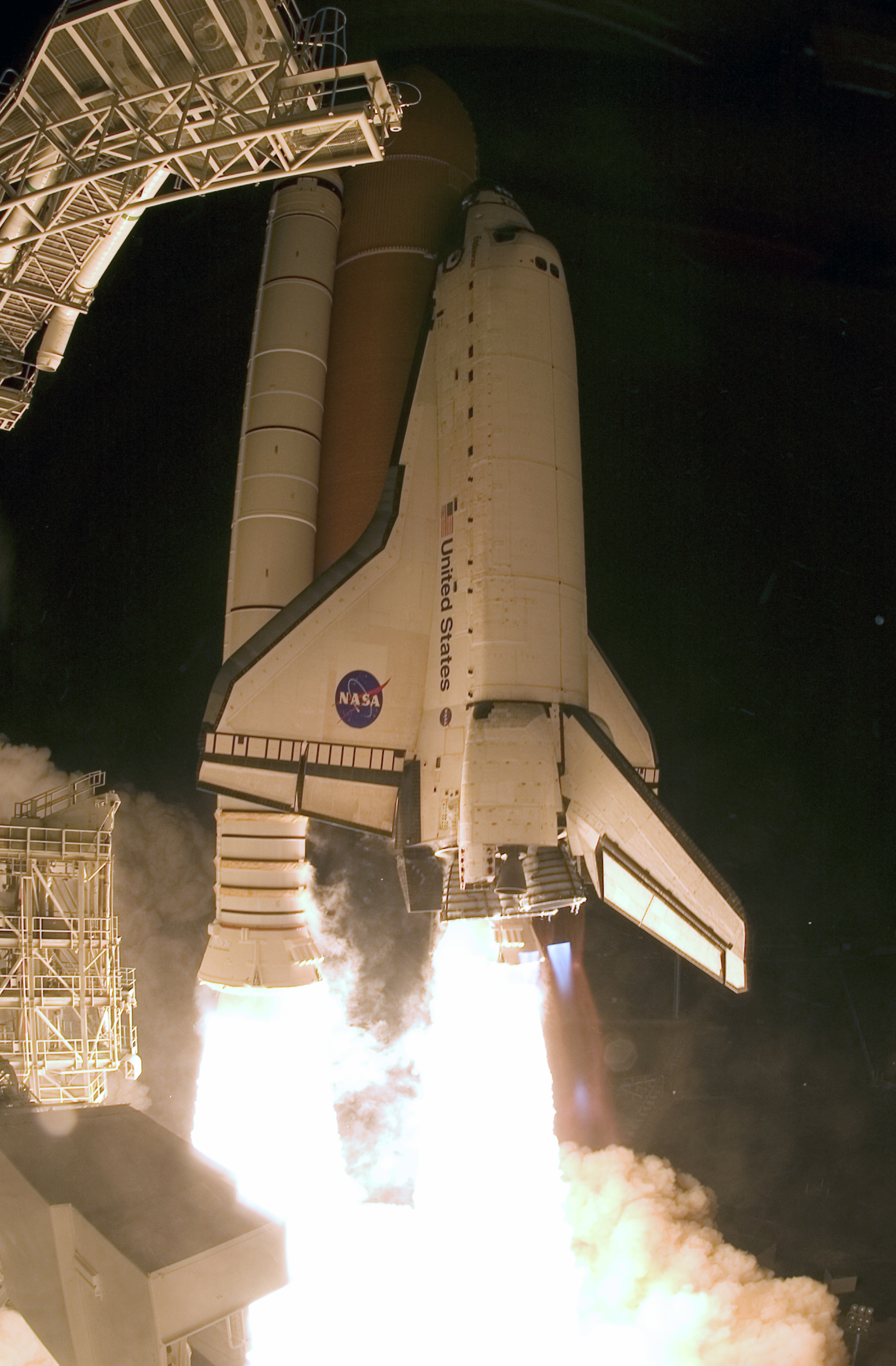 CAPE CANAVERAL, Fla. – On Launch Pad 39A at NASA's Kennedy Space Center, space shuttle Endeavour roars into the night sky on the STS-126 mission. Blue cones of light, the shock or mach diamonds that are a formation of shock waves in the exhaust plume of an aerospace propulsion system can be seen beneath the nozzles of the main engines. Liftoff was on time at 7:55 p.m. EST. STS-126 is the 124th space shuttle flight and the 27th flight to the International Space Station. The mission will feature four spacewalks and work that will prepare the space station to house six crew members for long-duration missions.